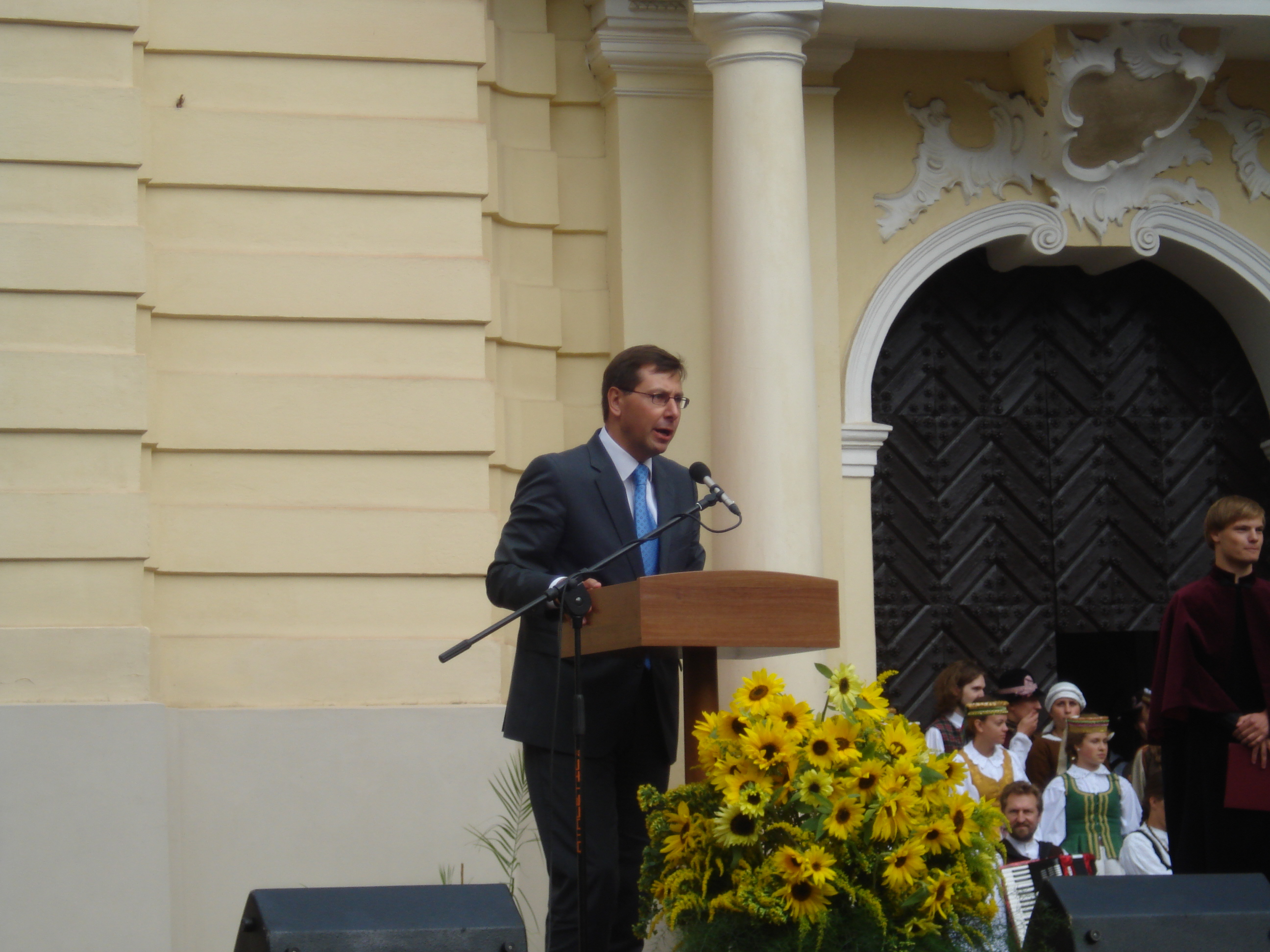 Gintaras Steponavičius at Initio Semestri in Vilnius UniversityLietuvių: Gintaras Steponavičius mokslo metų pradžios šventėje Vilniaus universitete 2011 rugsėjo 1 d.